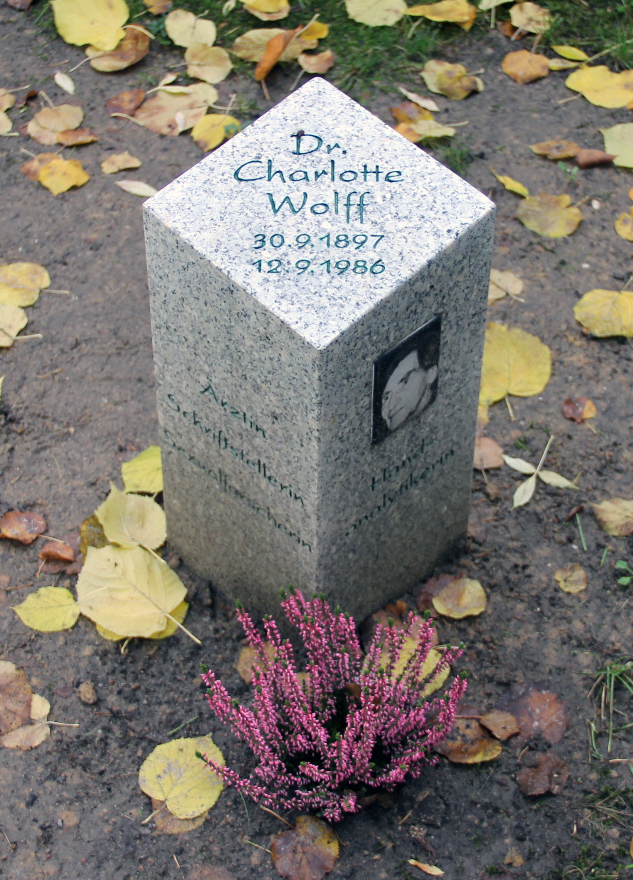 Memorial stone, Charlotte Wolff, Großgörschenstraße 12, Berlin-Schöneberg, Germany